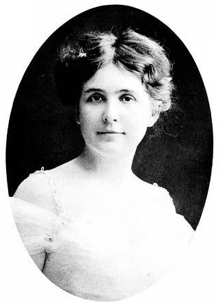 Portrait of Ettella B. (Greene) Brown, the wife of State Senator Elon R. Brown, and a member of the New York State Commission for the Panama-Pacific International Exposition